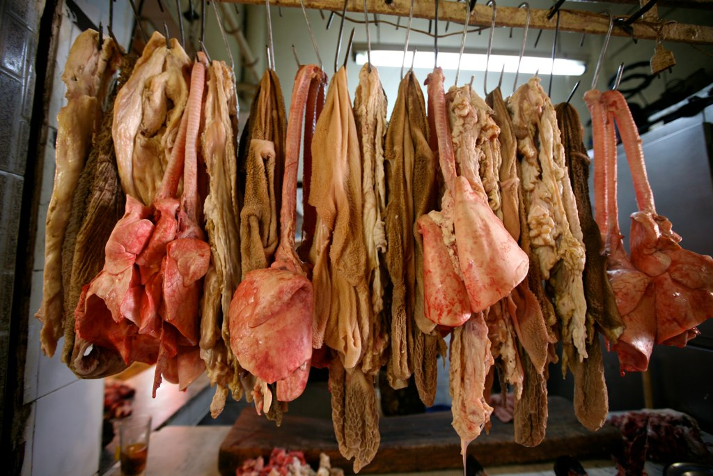 Animal Internals